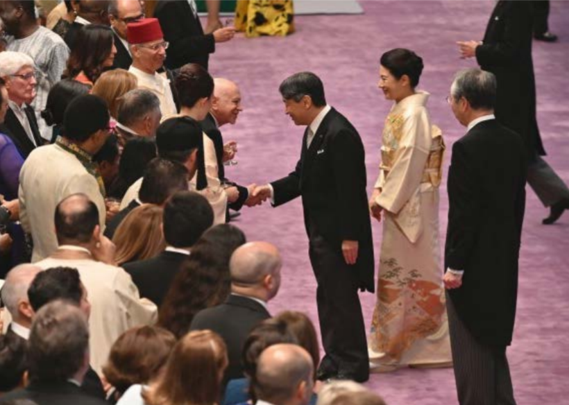 Court Banquets after the Ceremony of the Enthronement. Emperor Naruhito shakes hands with Ambassador Manlio Cadelo, Dean of the Diplomatic Corps in Japan, while the interaction with ambassadors to Japan.